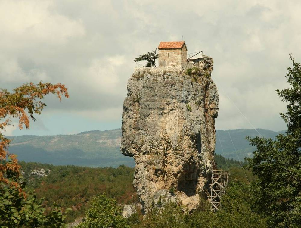 Katskhi column